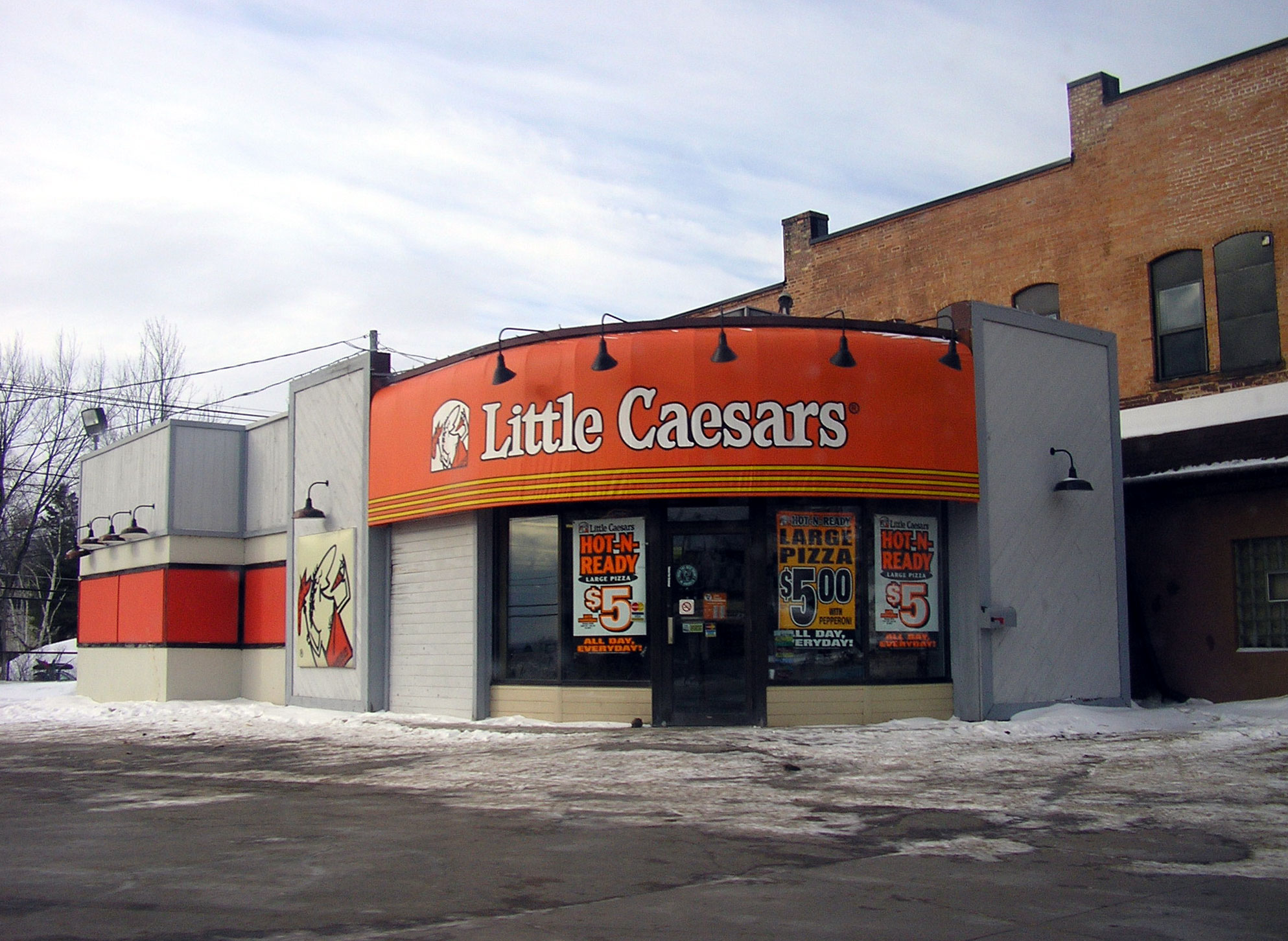 A Little Caesars establishment in downtown Marquette, Michigan.